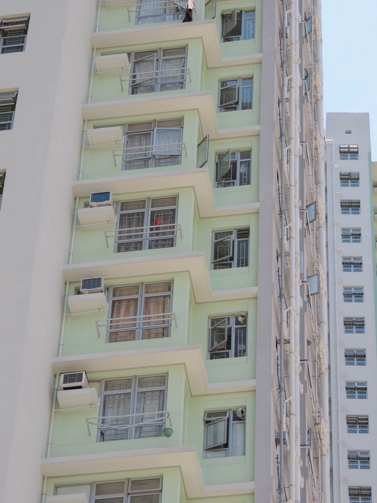 10-14/f, Lok Ching House